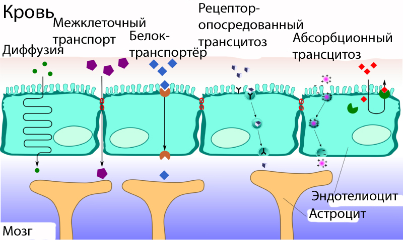 This file was taken from german wikipedia article (Blut-Hirn-Schranke) which was made by user Kuebi = Armin Kübelbeck under licence Creative Commons Attribution 3.0 Unported. I changed german words in russian with Photoshop